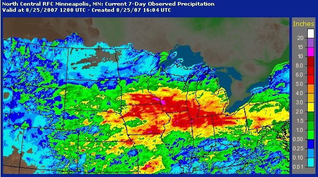 Ranfall totals across the midwest United States from August 17 - August 23, en:2007.